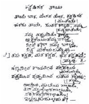 hand writing of govinda pai